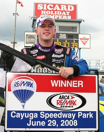 Justin Allgaier in Victory Lane at Cayuga International Speedway after winning the ARCA Re/MAX Series Cayuga ARCA Re/Max 250, June 29, 2008